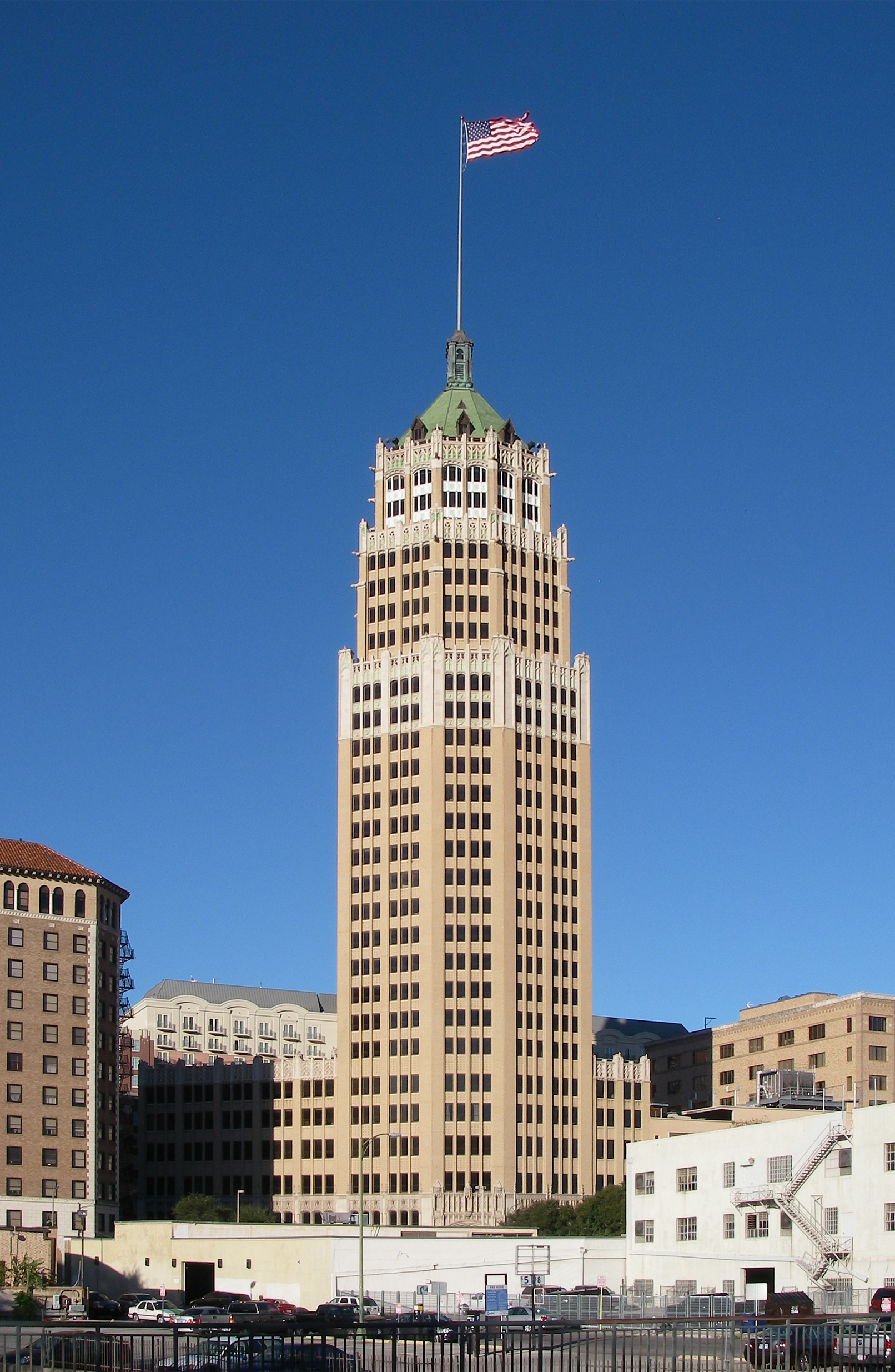 The Tower Life Building, constructed in 1929 - a landmark in San Antonio, Texas.